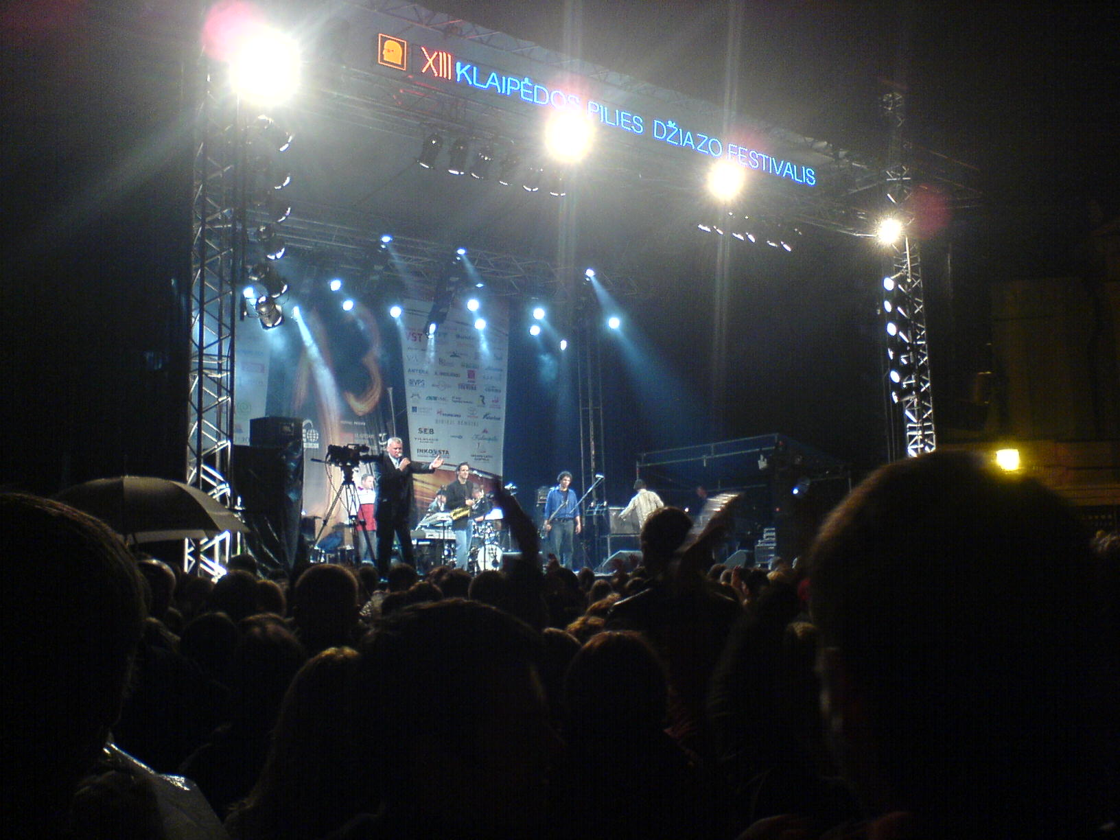 Main stage of the XIII Klaipeda Castle Jazz Festival in 2006.